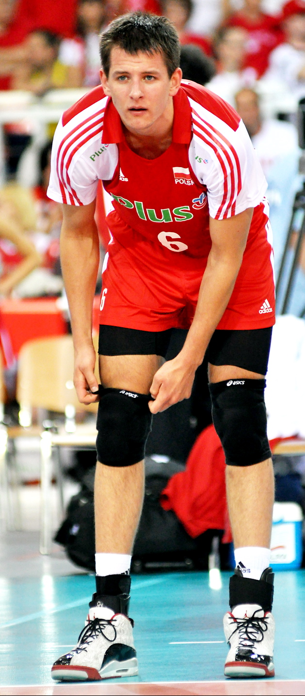 Bartosz Kurek